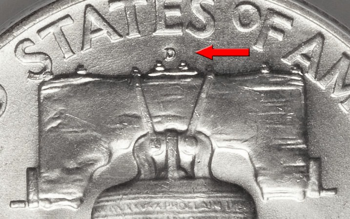 Closeup of mint mark on Franklin half dollars. Just above the bell on the reverse.